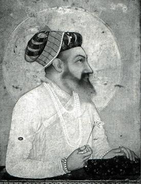 portrait of Mughal emperor Shah Jahan